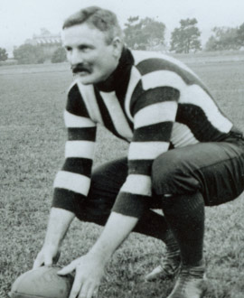 Photograph of Bill Proudfoot from 1892-1906